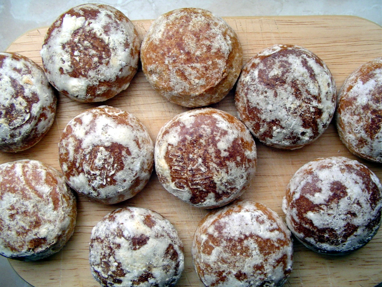 pryaniki (russian gingerbread)